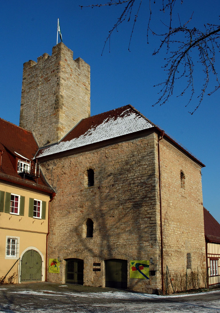 remaining buildings of the castle in Lauffen am Neckar, now part of the town hall.